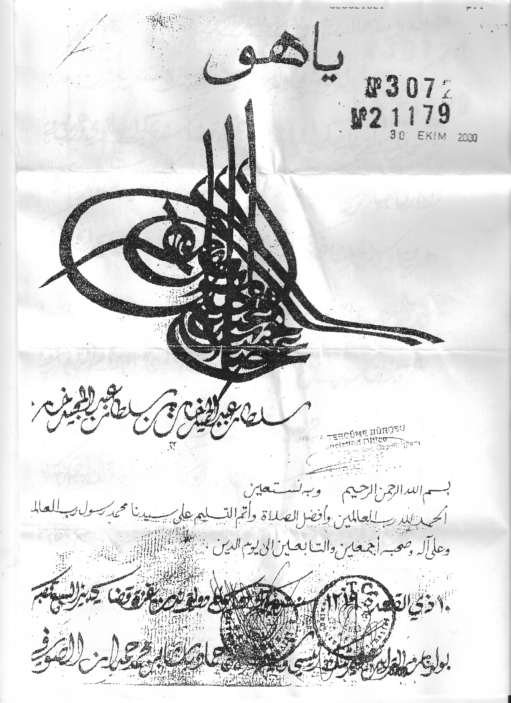 Sultan Abdel Hamid document to Tarabin tribe